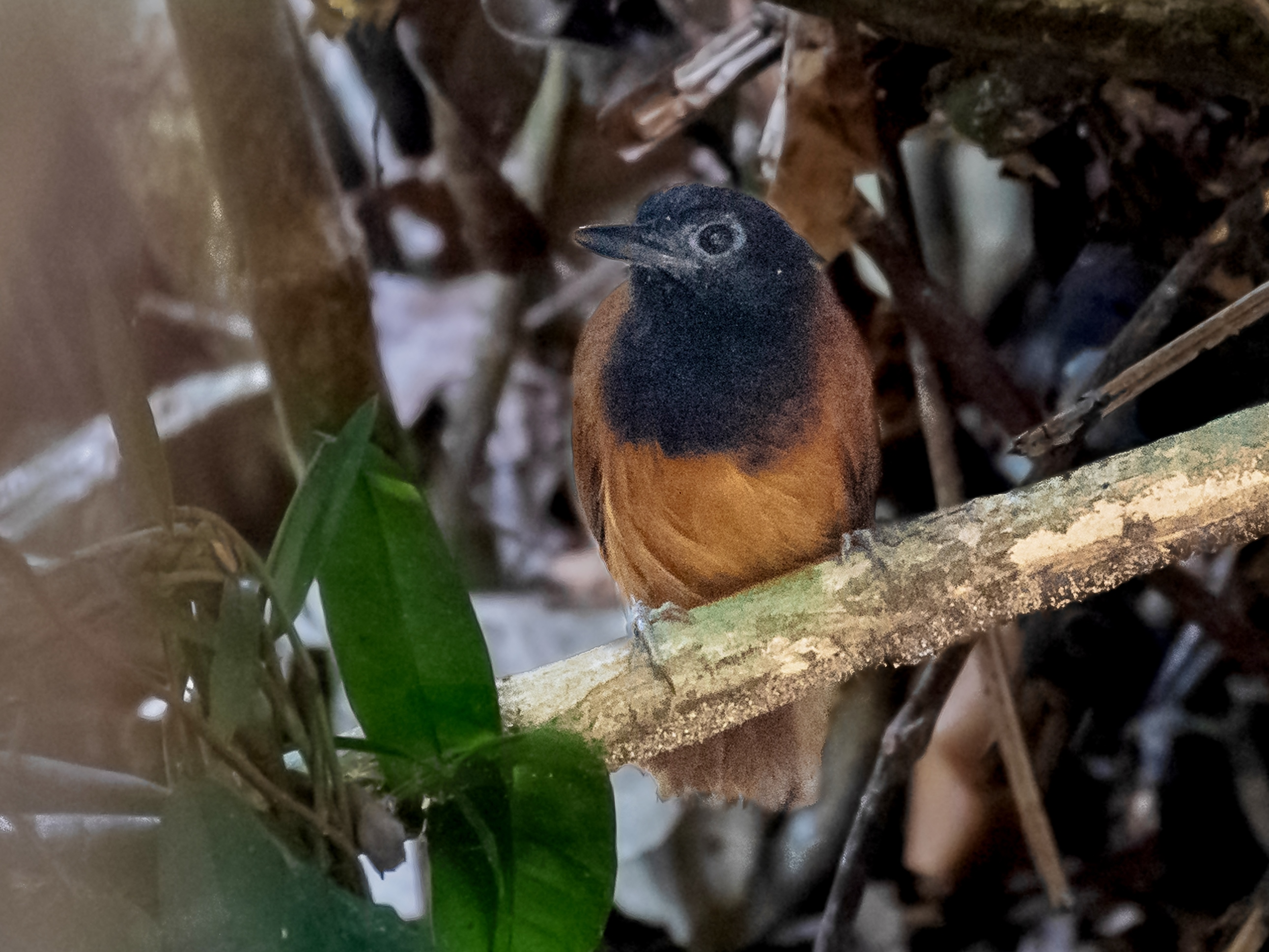 White-shouldered Antbird (female); River Moa, Mancio Lima, Acre, Brazil